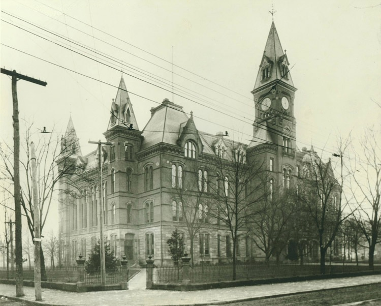 Second Charleston West Virginia capitol building. In use from 1885 to 1921. It was destroyed by fire in 1921.